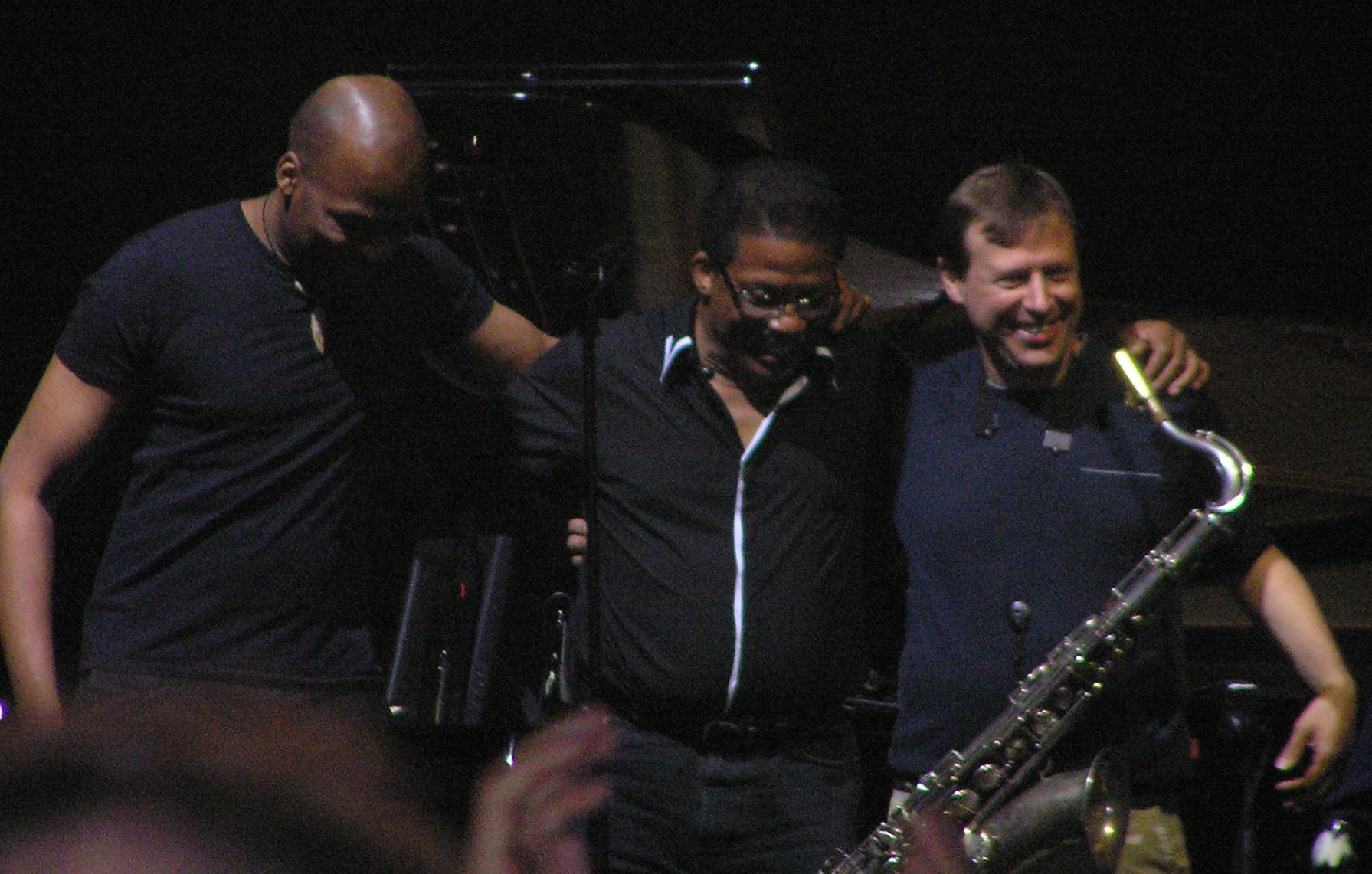 Herbie Hancock (with Lionel Loueke e Chris Potter) in concert at Arena Romana, Padova, Italy, July 18, 2008.